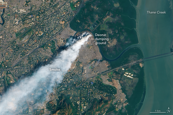 Smoke from the fire which broke out on 27th Jan 2016 at Deonar dumping ground, Mumbai